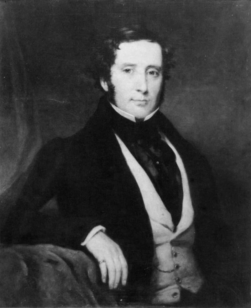 John Fraunceis Fitzgerald, 24th Knight of Glin